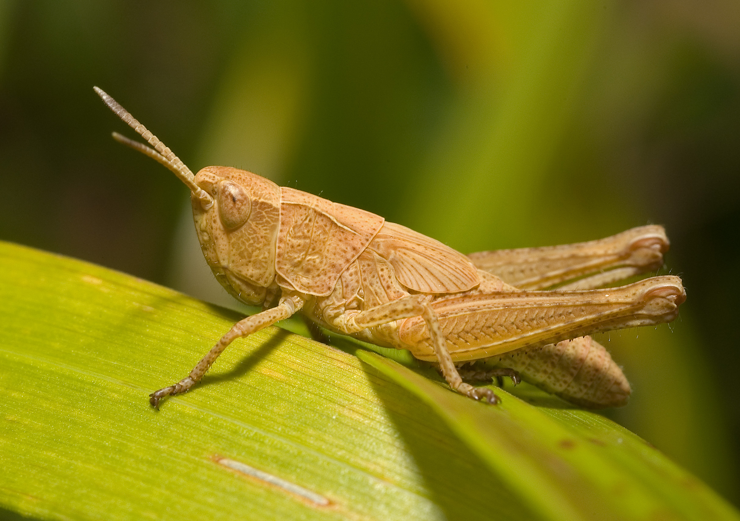 Description: nymph of Gomphocerippus rufus